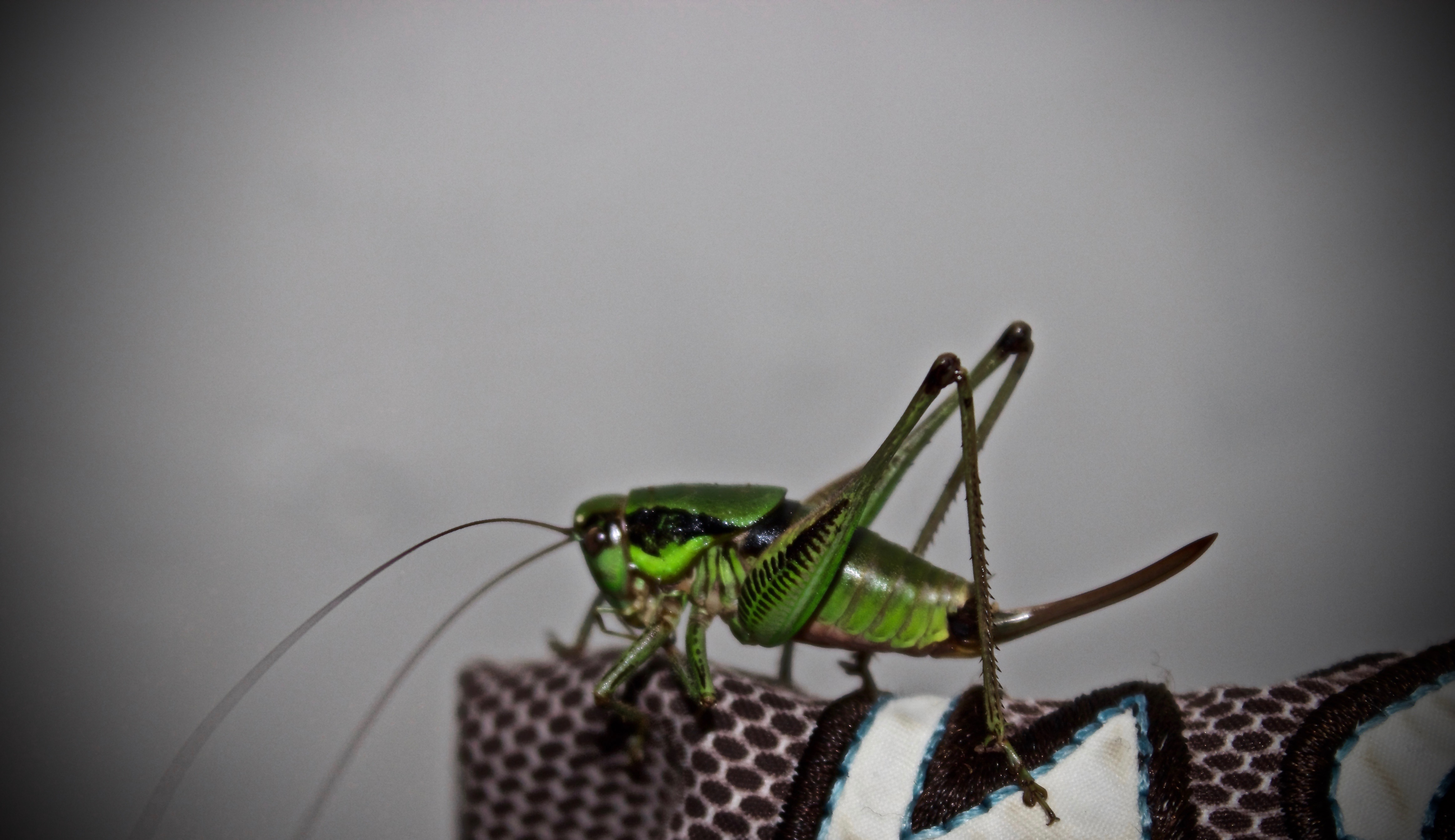 Eupholidoptera chabrieri